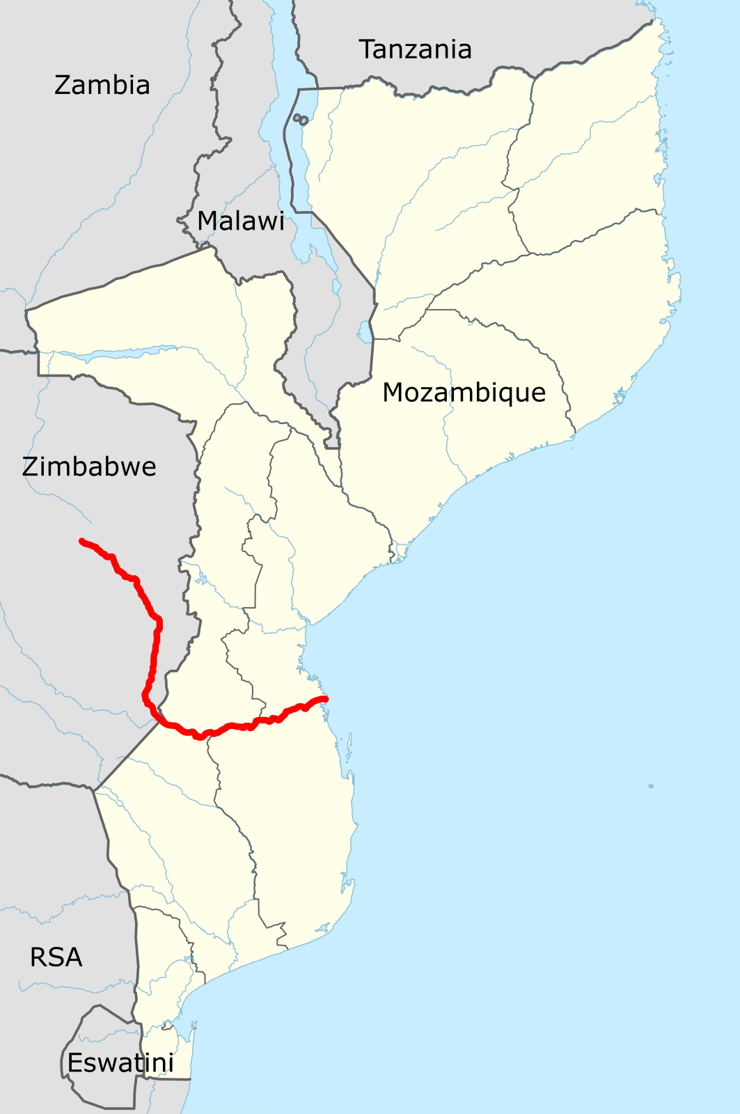 Hunyani River course in Zimbabwe and Mozambique (red)